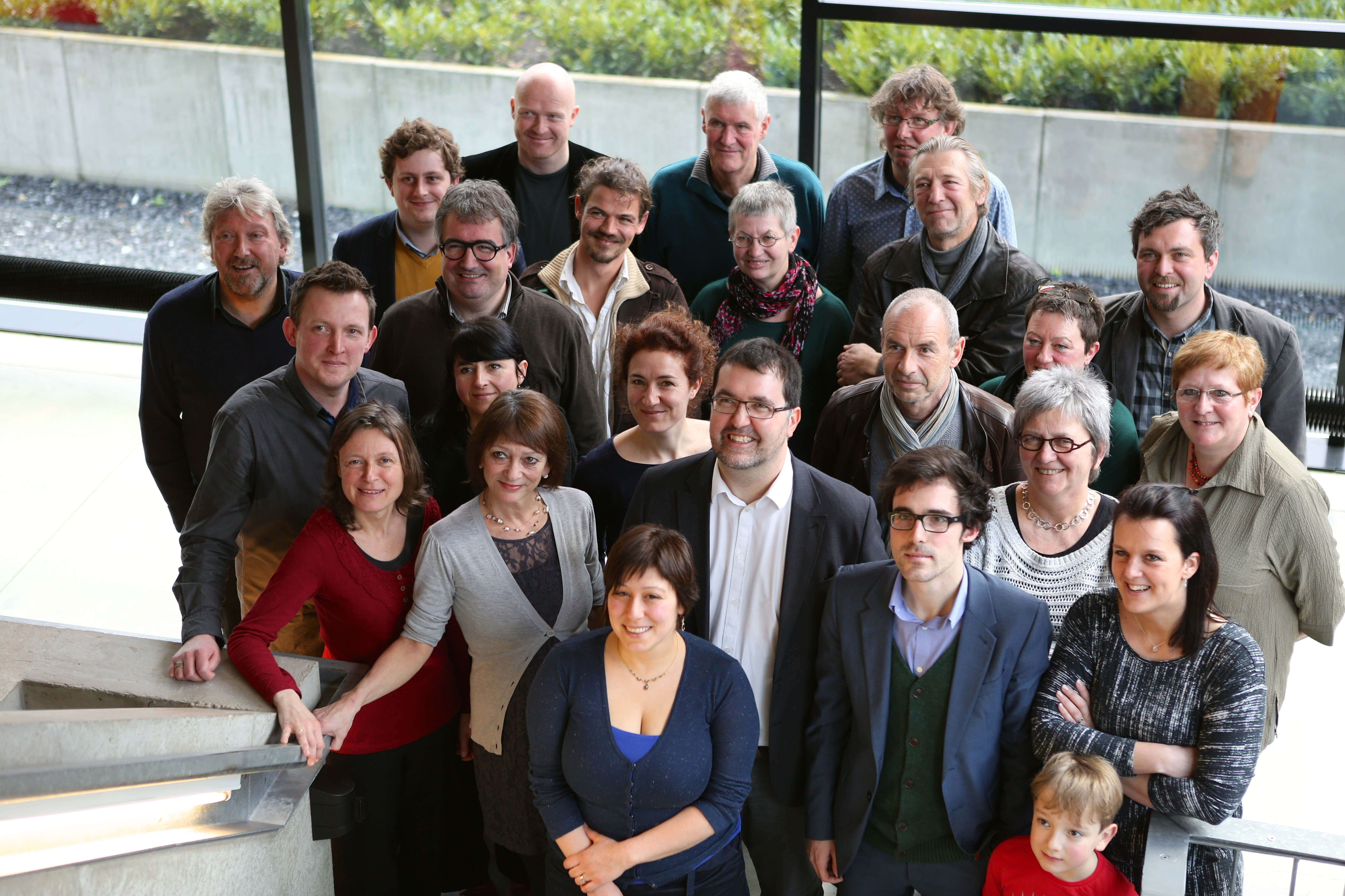 Group photo of the candidates for Groen in the 2014 election in the province Antwerp.